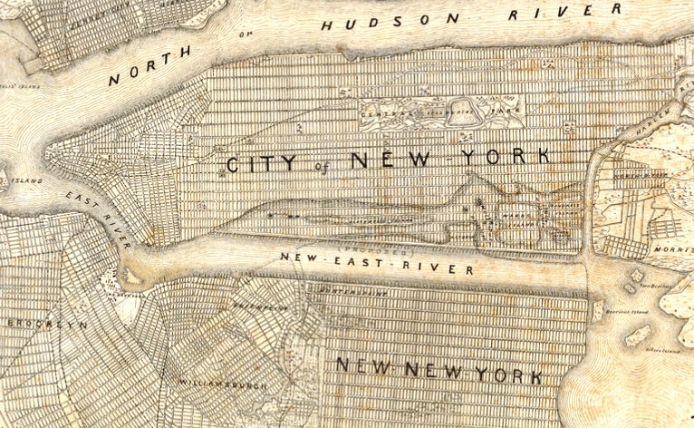 New York and Vicinity as Proposed to be Remodeled Collection: Maps of New York City and State / New York City / New York City & Vicinity Dates / Origin: Date Created: 1865 Library locations: Lionel Pincus and Princess Firyal Map Division Genres: Maps Notes Content: J. Serrell's proposal for remodelling NYC. Type of Resource: Cartographic Identifiers: Barcode : 33433098147337 UUID: a5ef9980-756b-0131-08b4-58d385a7b928